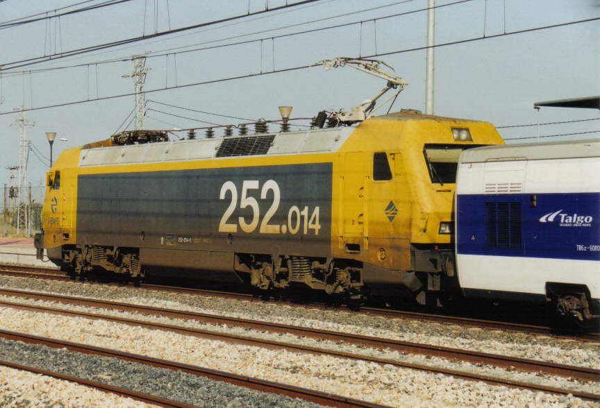 L'Aldea-Amposta-Tortosa, Spain: Renfe class 252.